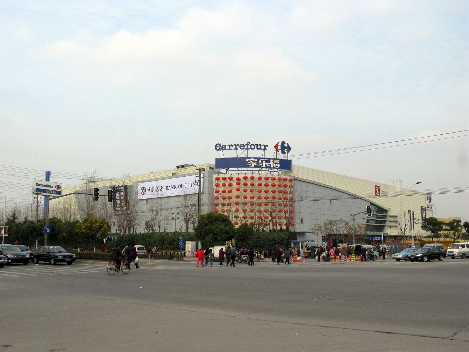 Carrefour in Shanghai.